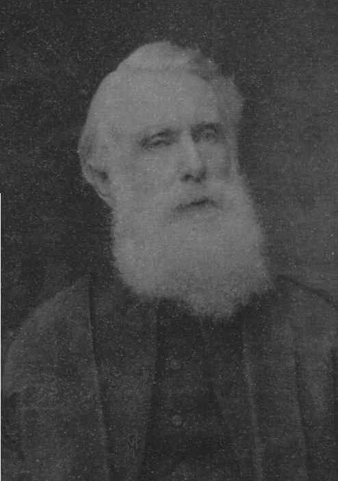 John Gwynn, Regius Professor of Divinity, Dublin University